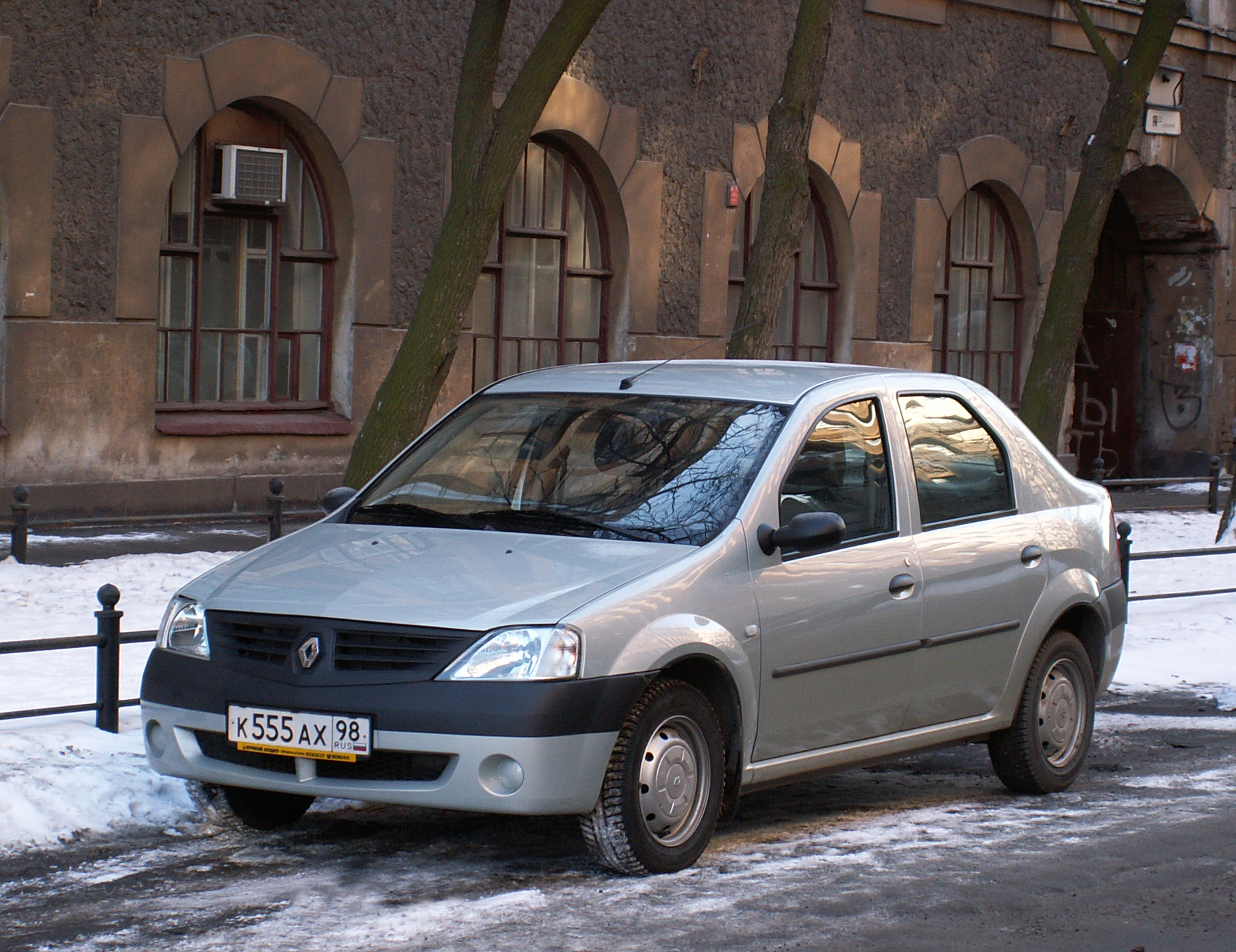 Renault Logan (side view) near SPIIRAS